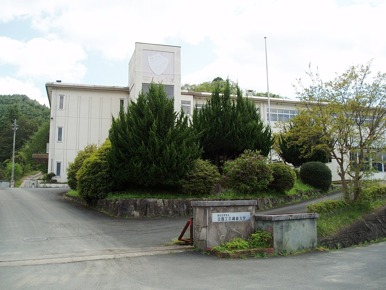 Former site of Fukuchiyama Girls' High School located in Fukuchiyama, Kyoto, Japan.